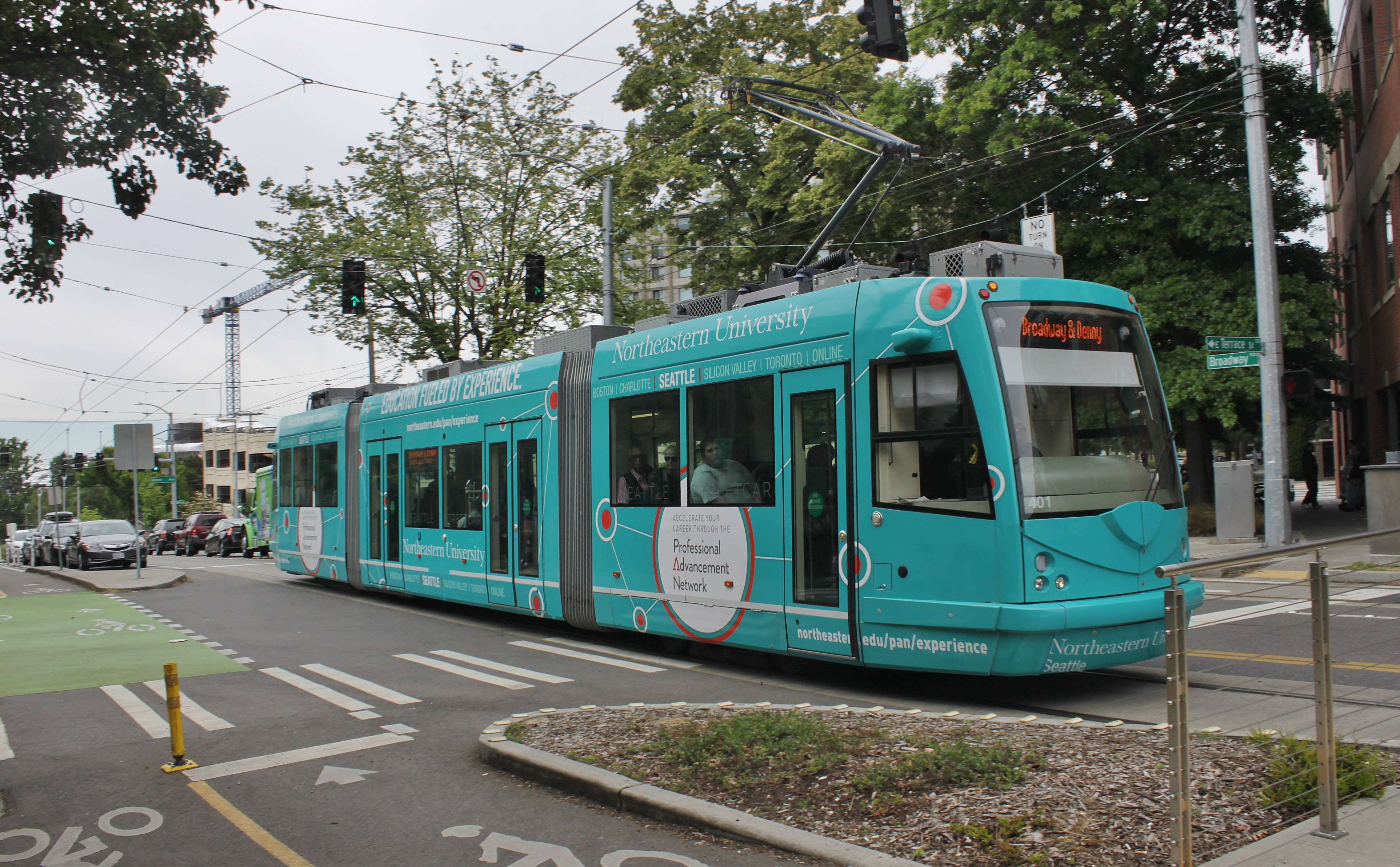 An Inekon 121 Trio streetcar on the Broadway section of the First Hill Streetcar in Seattle, Washington, US, seen from the parallel cycletrack.